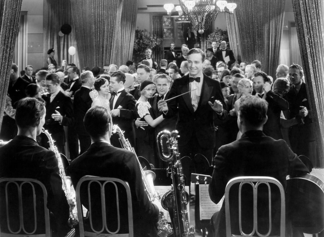 Photo from the 1932 film Crooner.